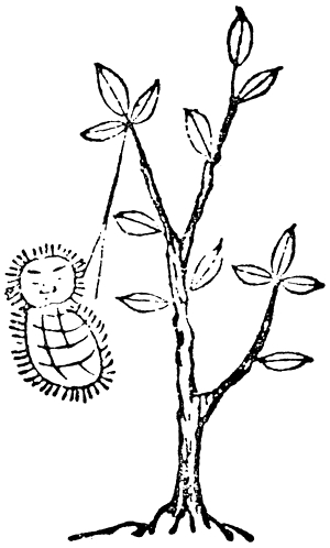 Jōgenmushi (常元虫) from the Sanyōzakki (三養雑記).